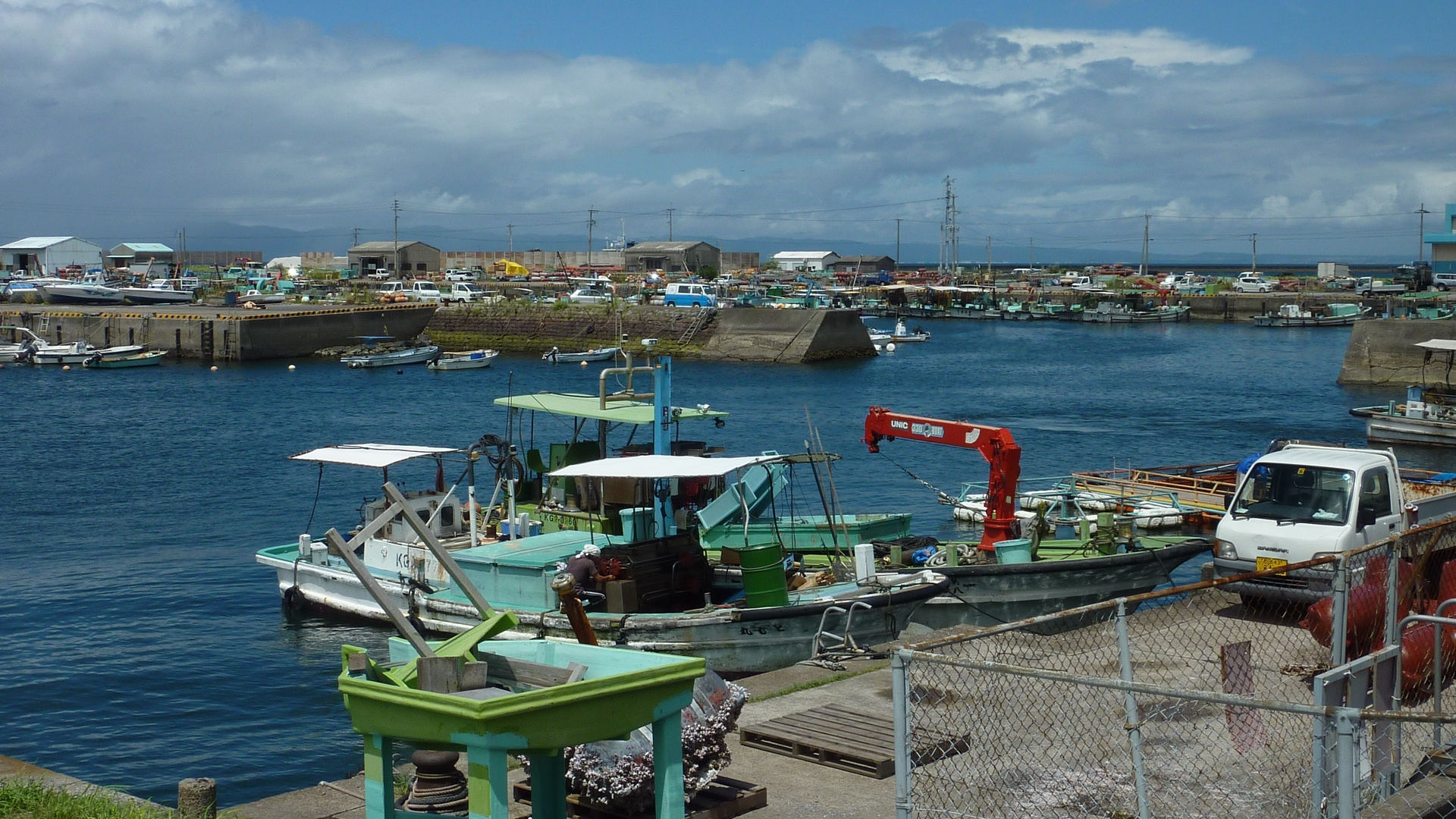 Kanoya Port (Furue-cho, Kanoya City, Kagoshima, Japan)